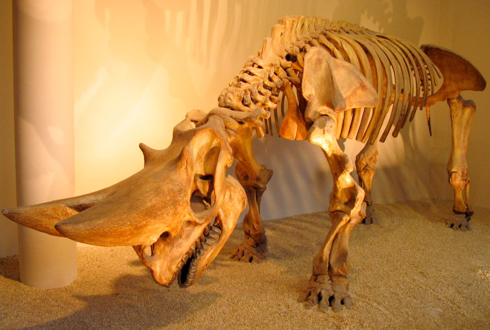 Cast of an Arsinoitherium zitteli skeleton from Fayum, Egypt, dating from the early Oligocene, taken at the Natural History Museum, London.